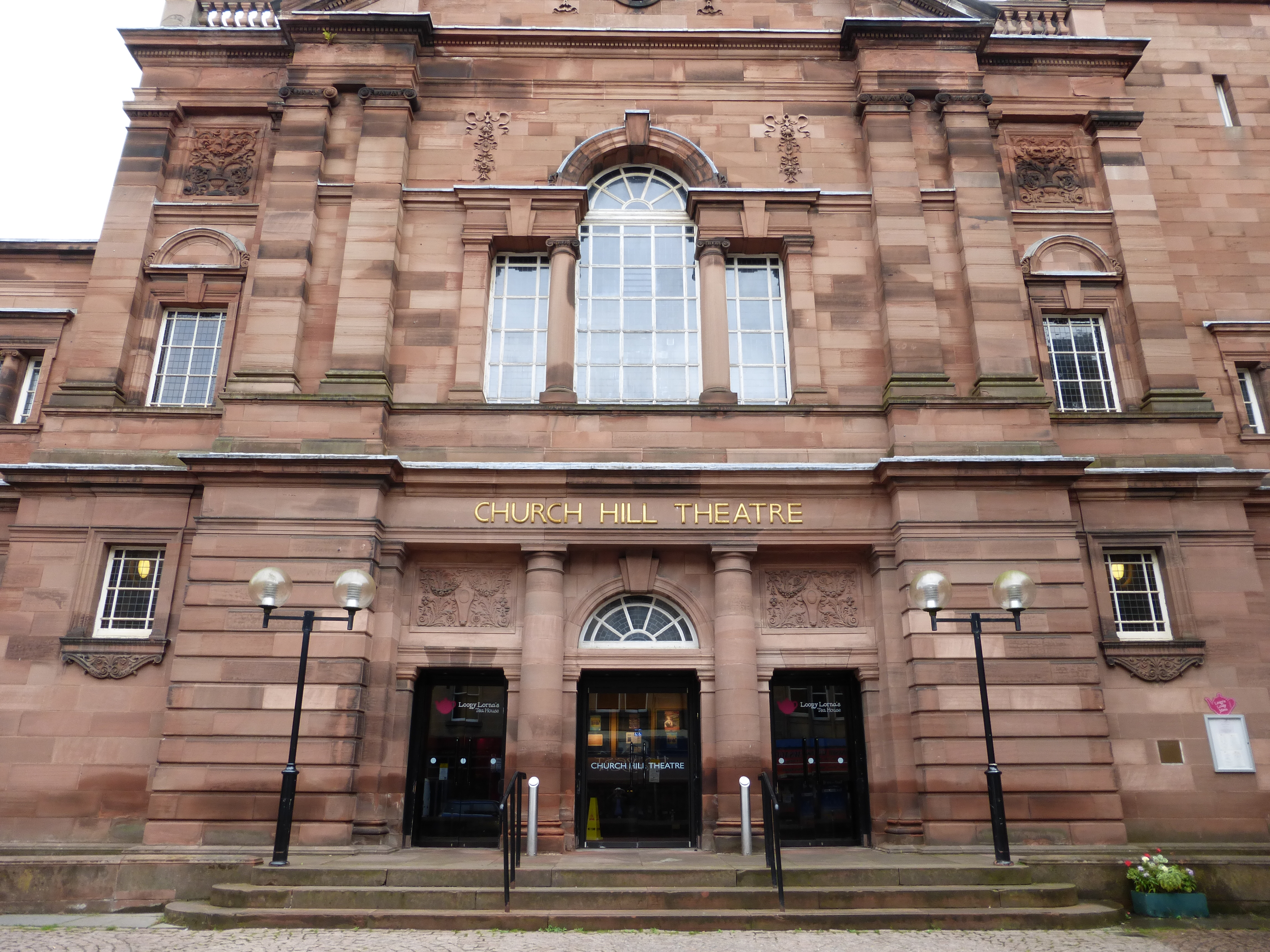 Church Hill Theatre entrance